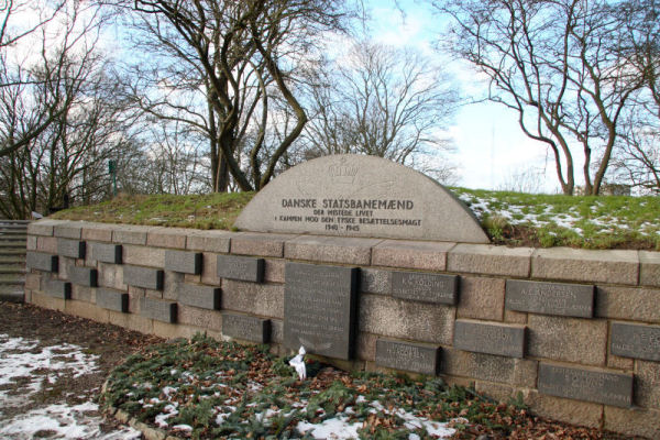 From the Memorial Park, Fredericia, Denmark. Photo taken by Jørgen Larsen, 2007-01-27